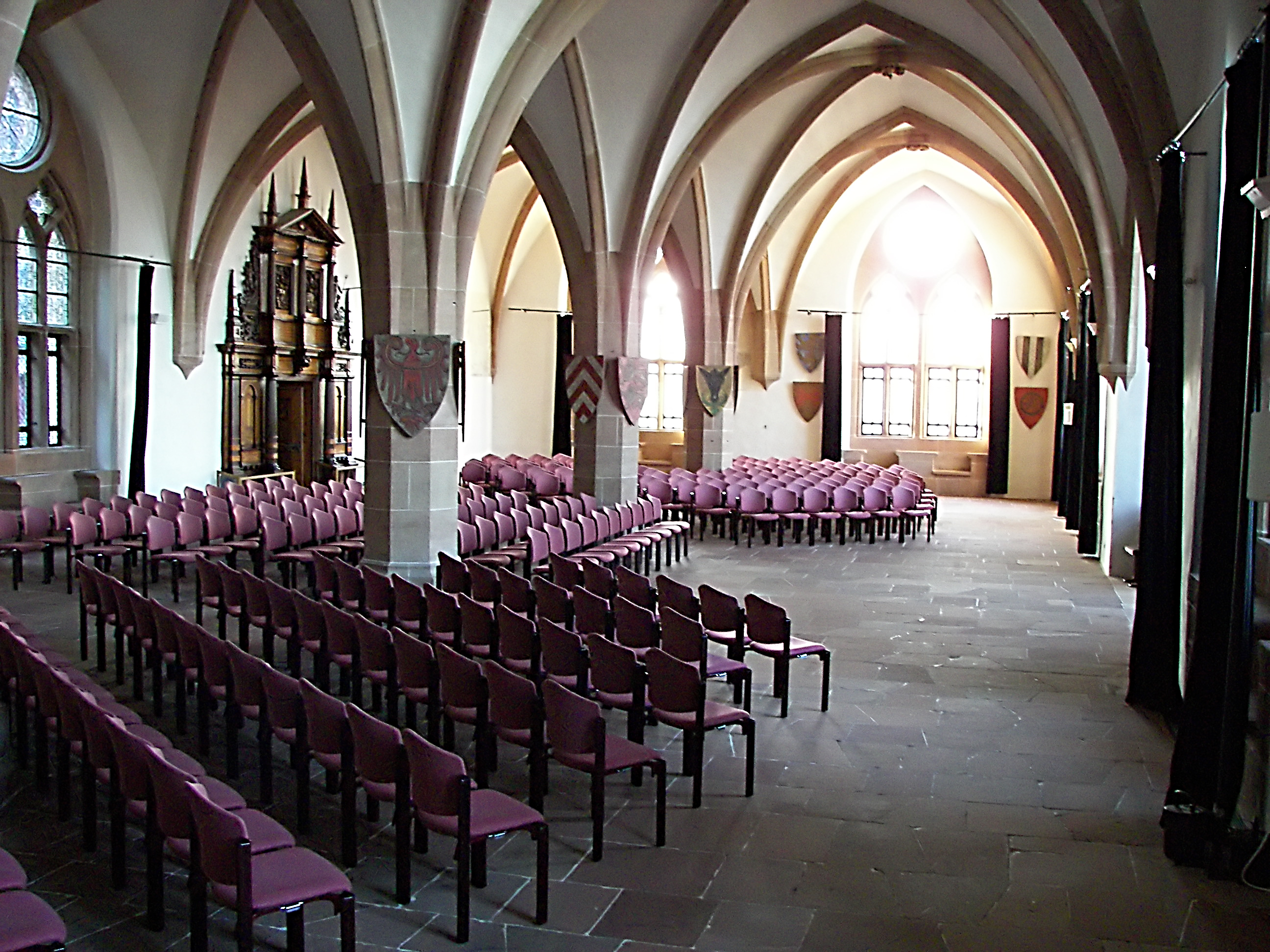 Fürstensaal in the castle in Marburg.